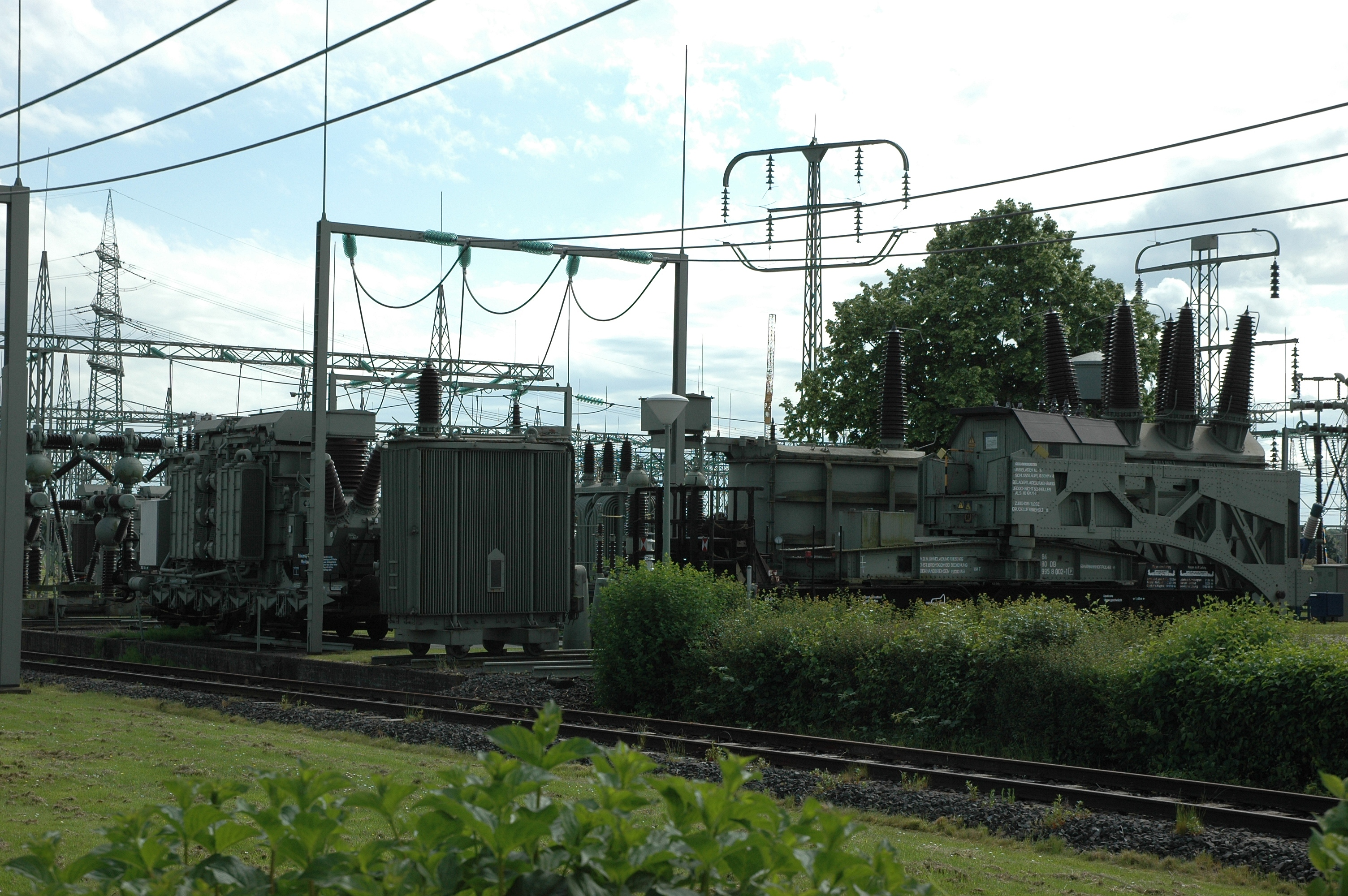 Elektrothek Osterath, part of the outdoor area